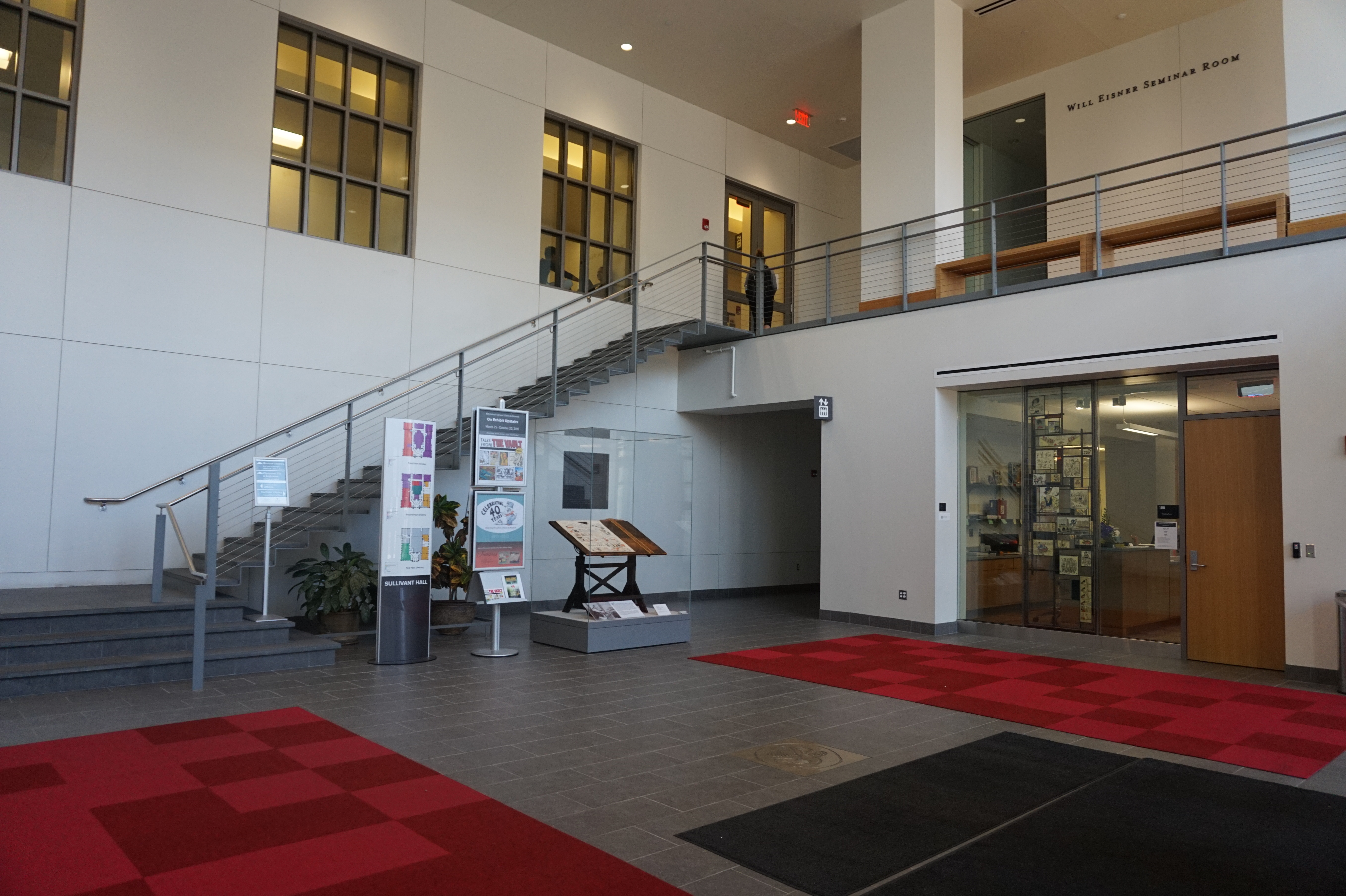 The lobby area of the Billy Ireland Cartoon Library and Museum, which is housed in Sullivant Hall at The Ohio State University